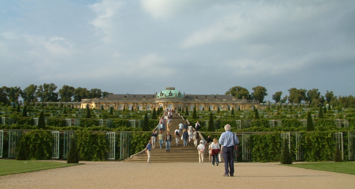 Palace and glasshouses of Sanssouci